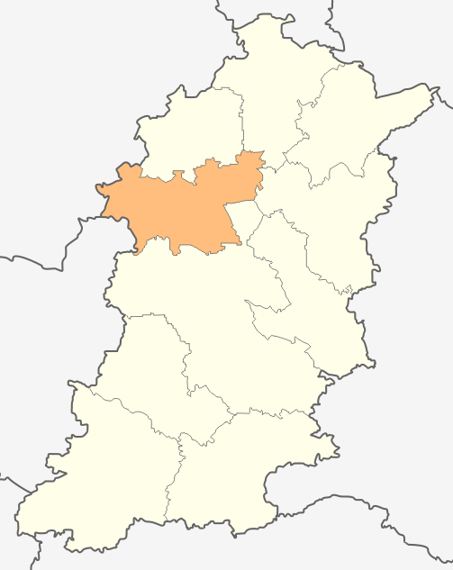 Map of Hitrino municipality, Shumen Province